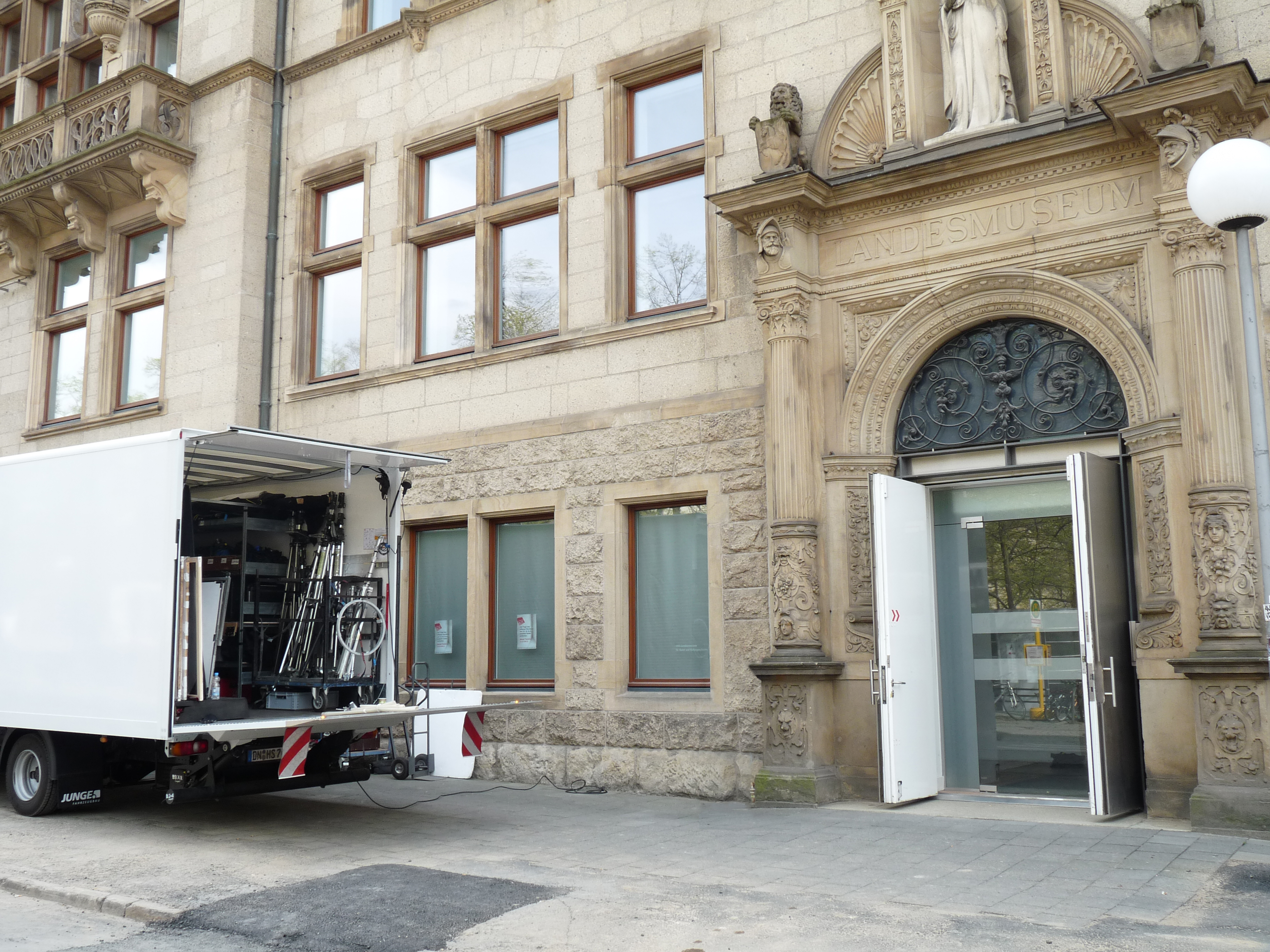 shooting of episode Die chinesische Prinzessin of TV series Tatort at Westphalian State Museum of Art and Cultural History